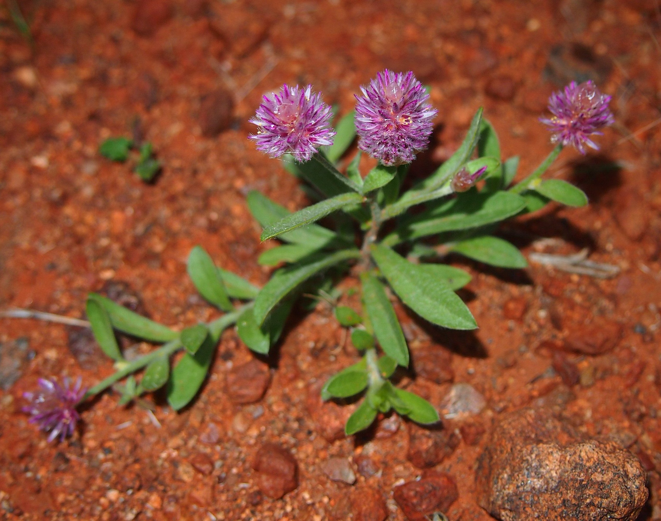 Ptilotus helipteroides habit